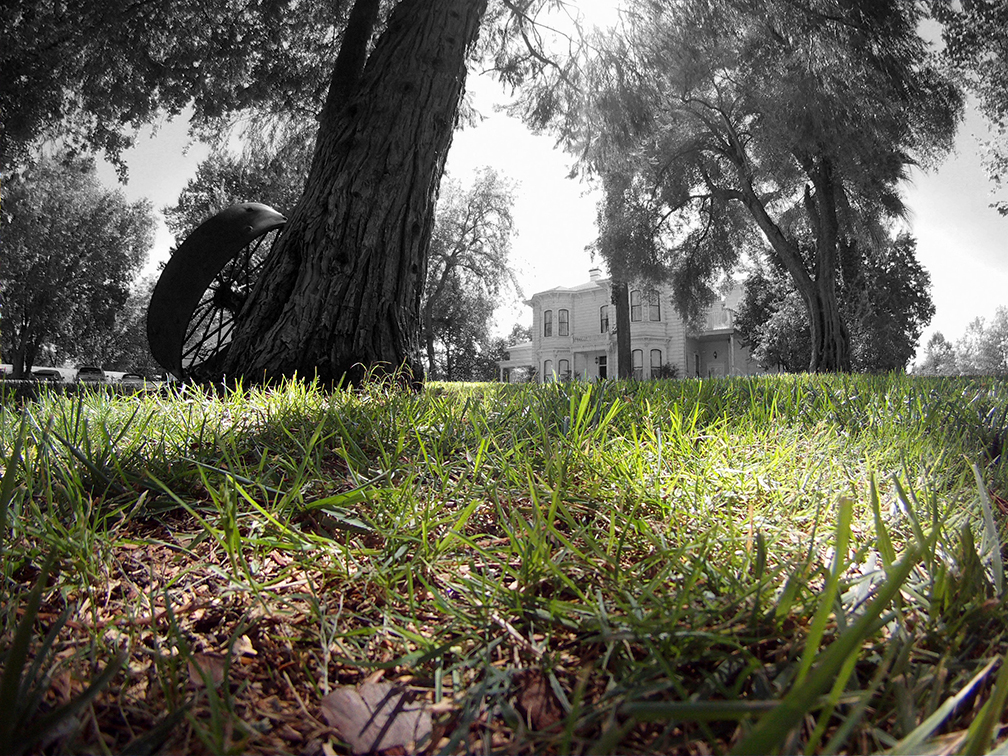 The Griffith Mansion in Yolo (Cachville) built by Abram Griffith in 1886